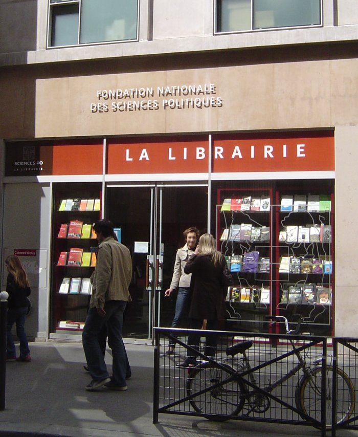 The Sciences-Po book shop